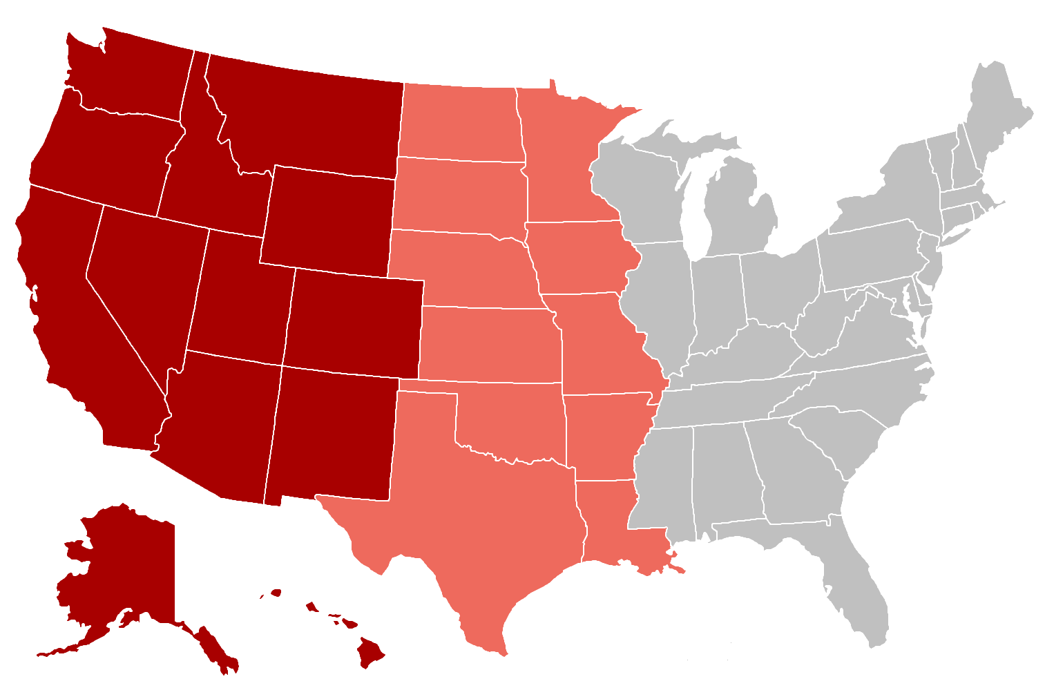 A map of the western US, based on File:120px-US map-West.png. Red states are the official "West" designated by the Census Bureau while the pink states are sometimes considered or once considered to be part of the West.